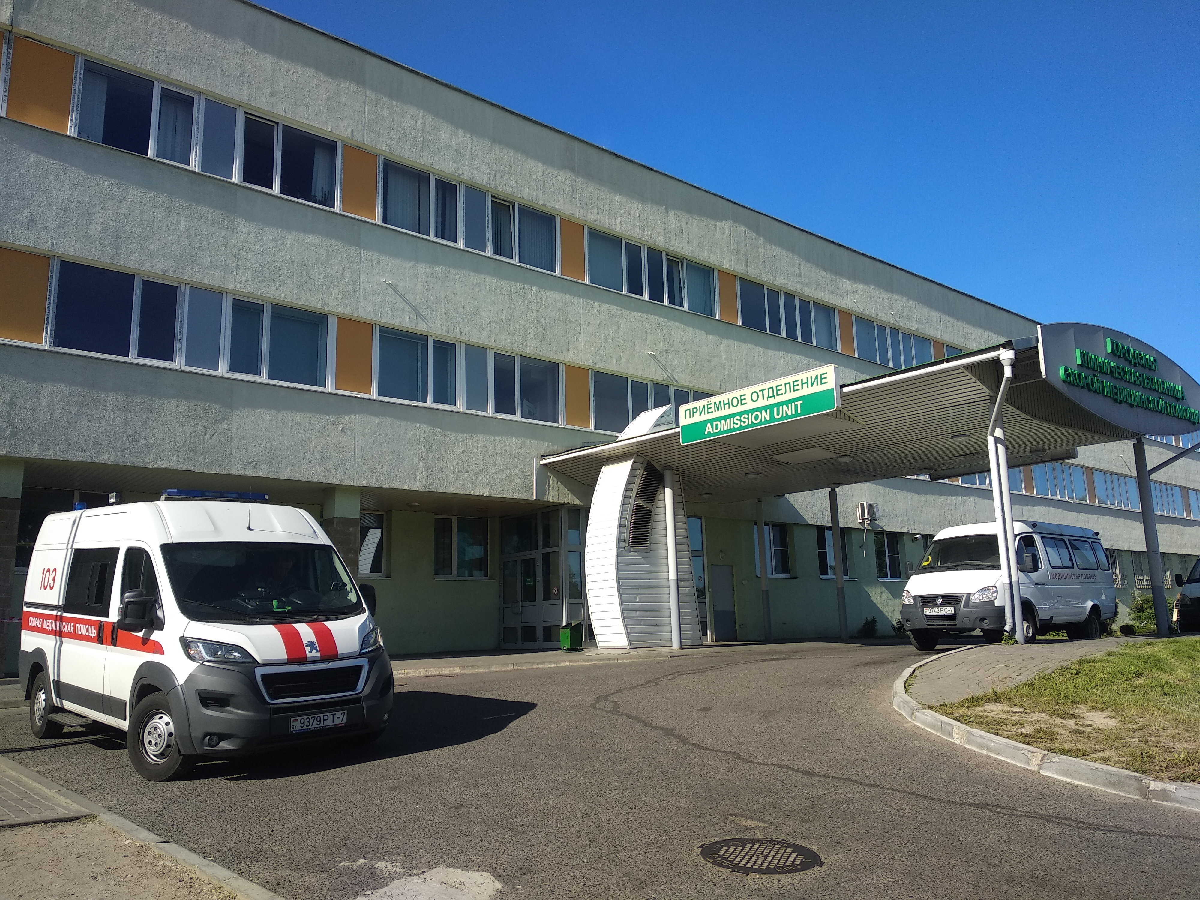 Minsk Clinical Emergency Hospital Admission Unit